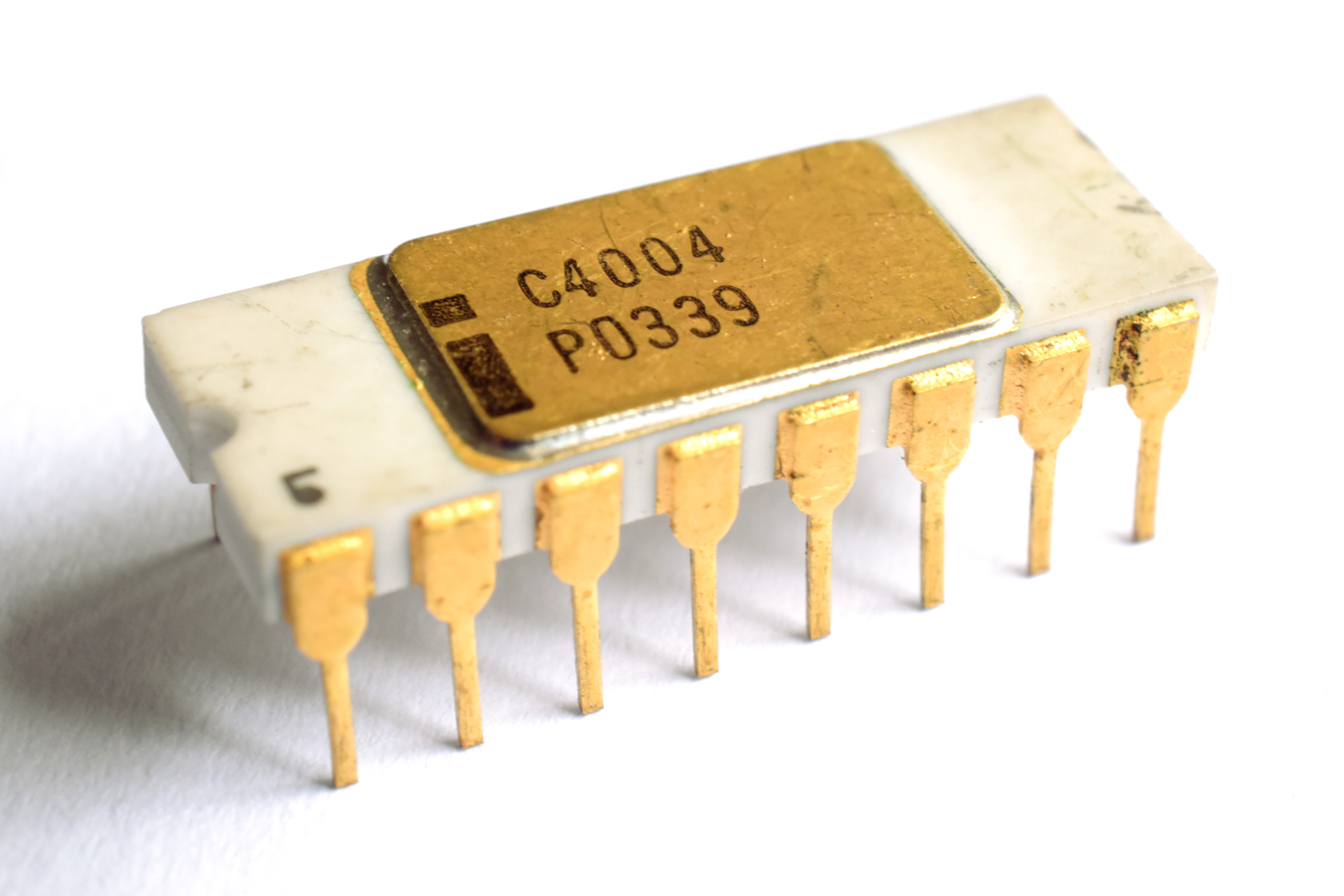 A processor Intel C4004 without grey traces (gray traces version).